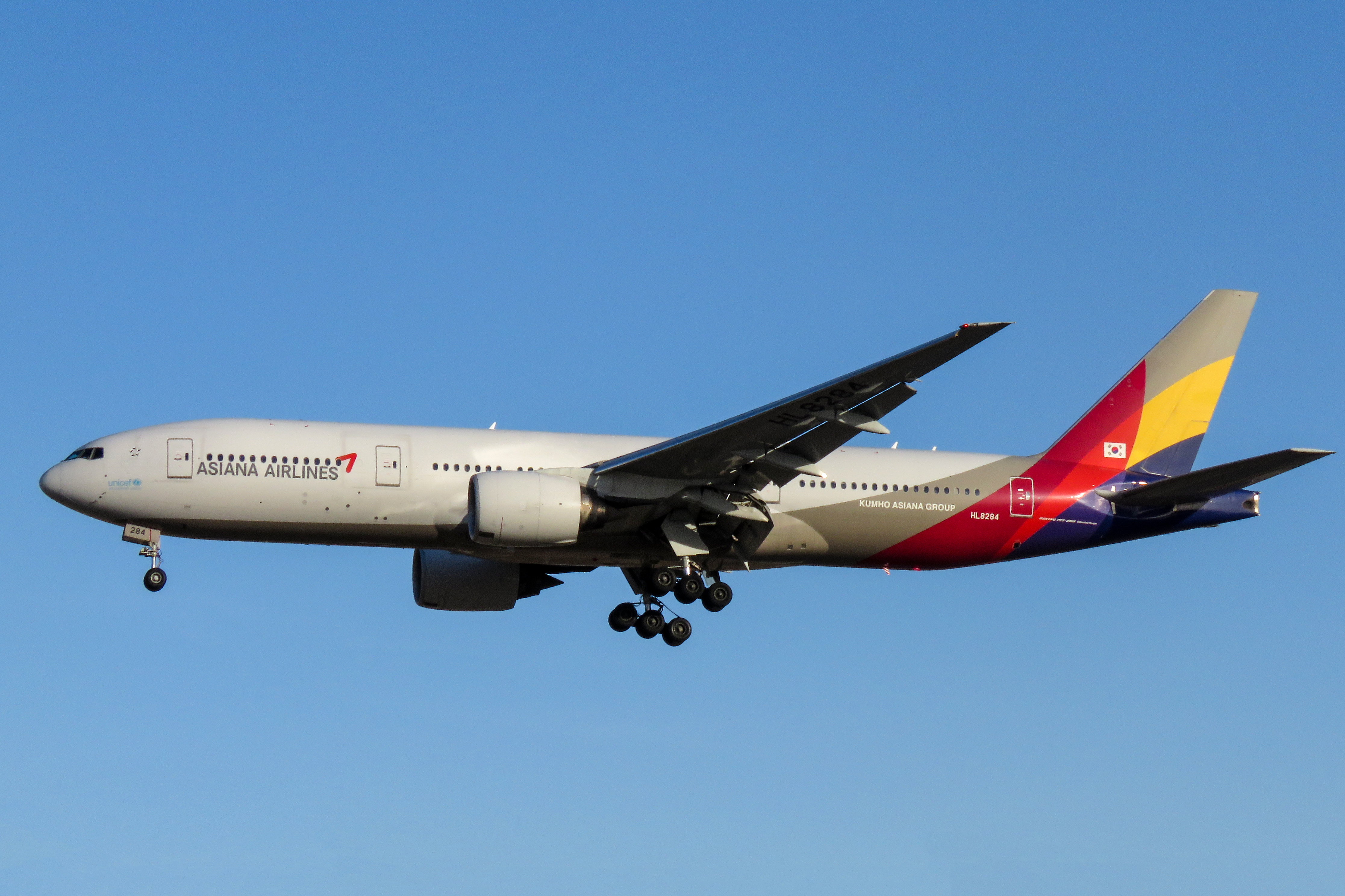 Asiana 333 from Seoul-Incheon, this time using a 772ER. By the way, Kim Jong-un came to Beijing again, but he didn't fly his Il-62... what a pity!